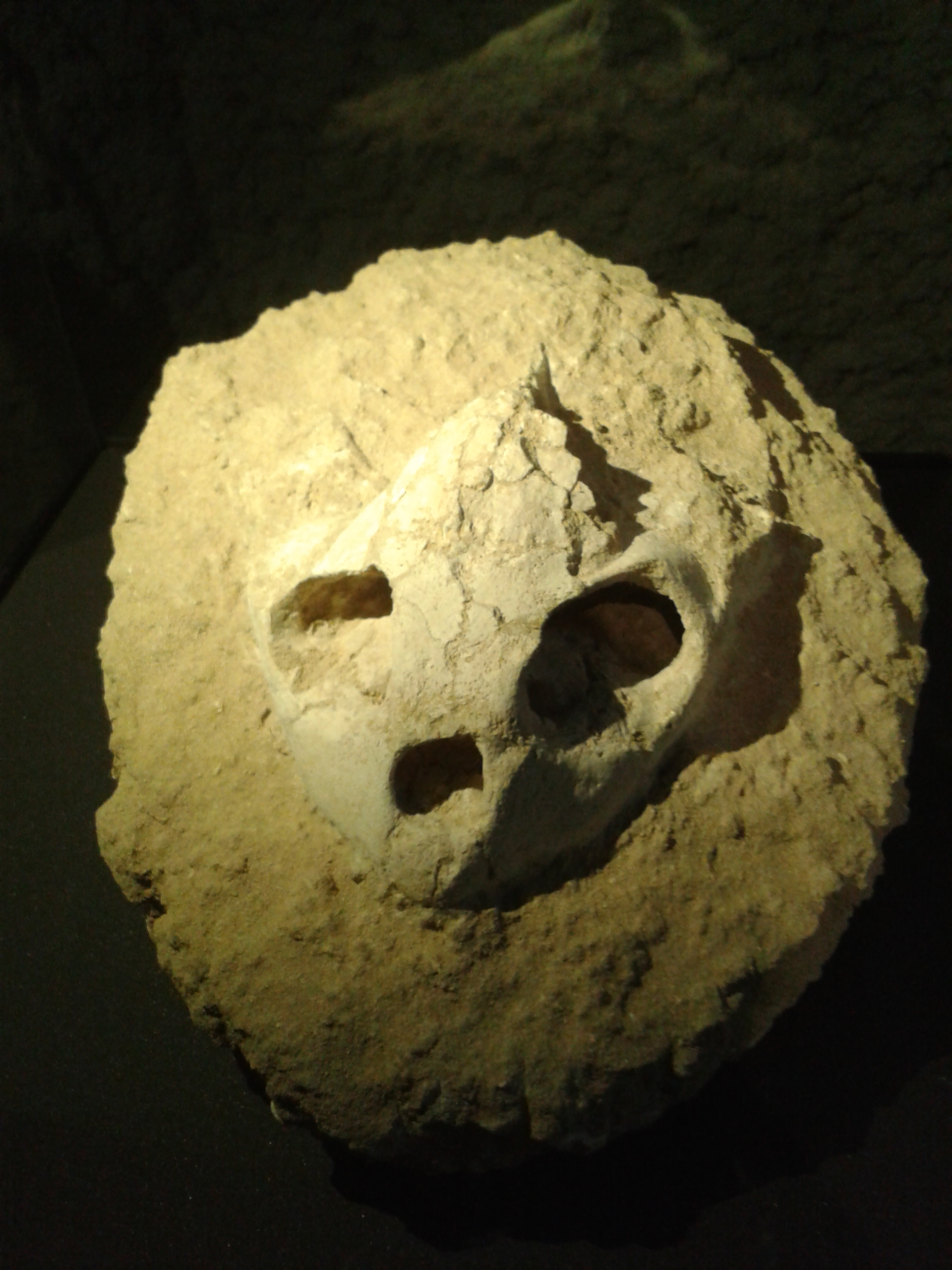 A skull of Gafsachelys spp., a prehistoric tortoise belonging to the family Bothremydidae that lived from the Cretaceous to the Eocene.